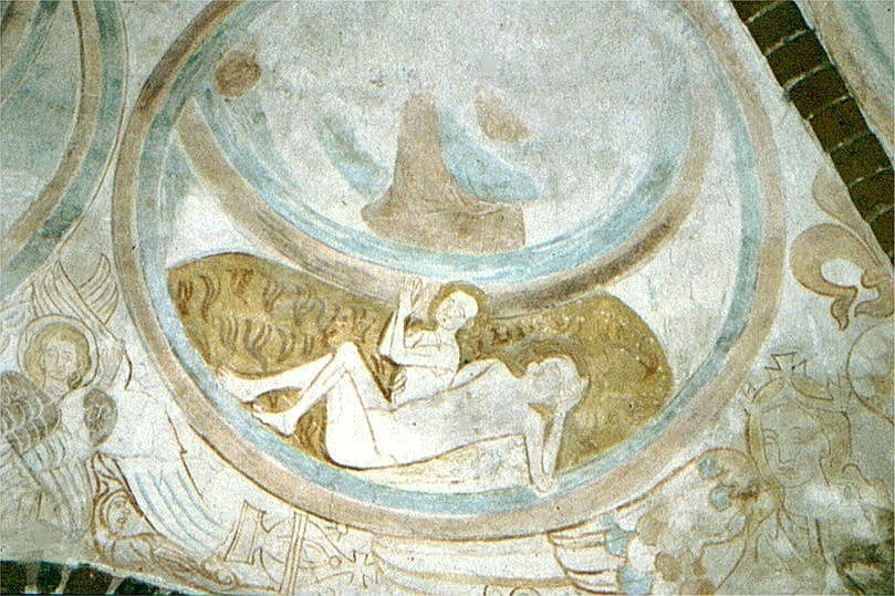 Brarup Kirke with frescoes by The Brarupmaster